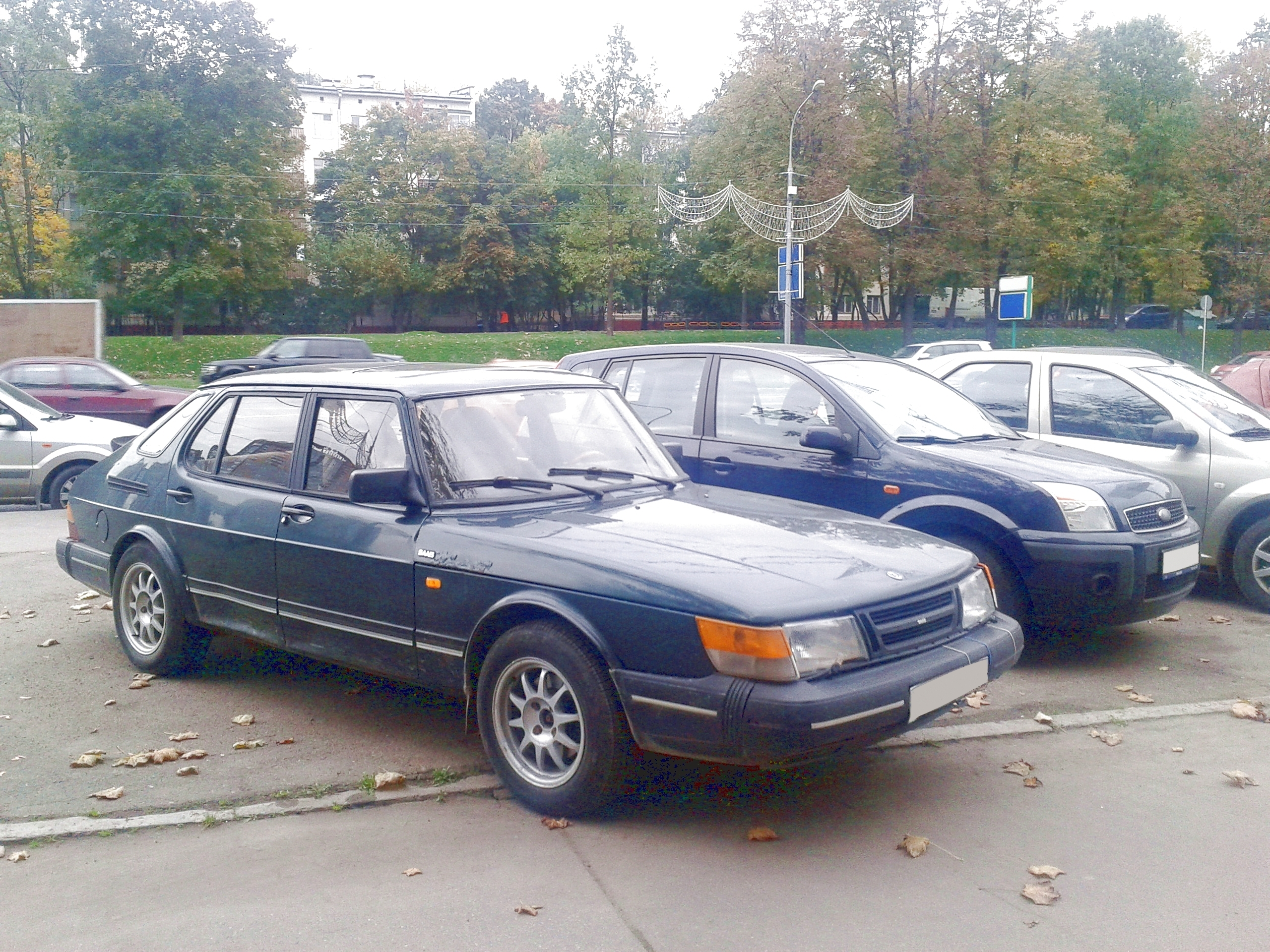 SAAB 900i.